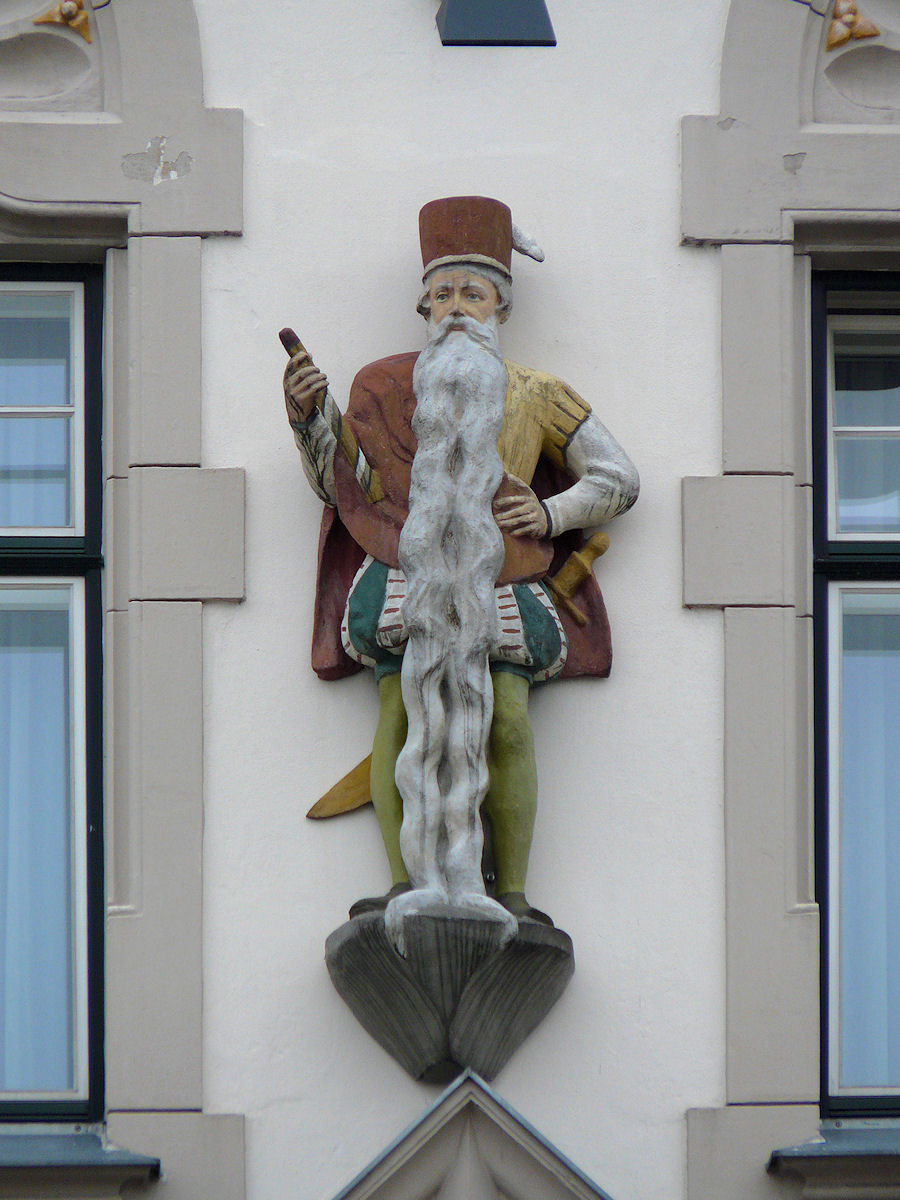 A statue on the facade of the Rathaus, Braunau am Inn, Austria